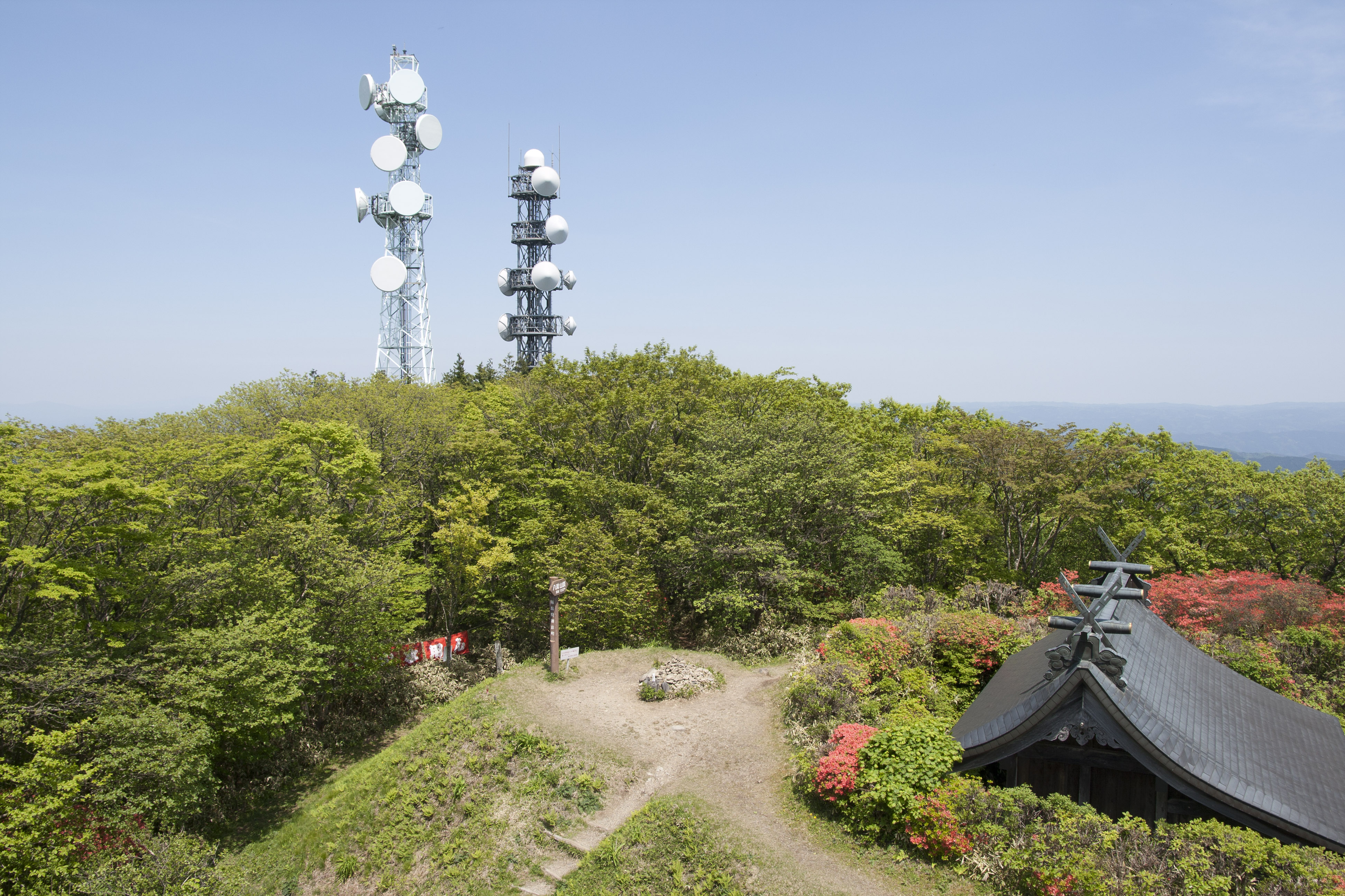 Top of Mount Yamizo (Yamizo-san) on the border of Ibaraki and Fukushima Prefectures, Japan